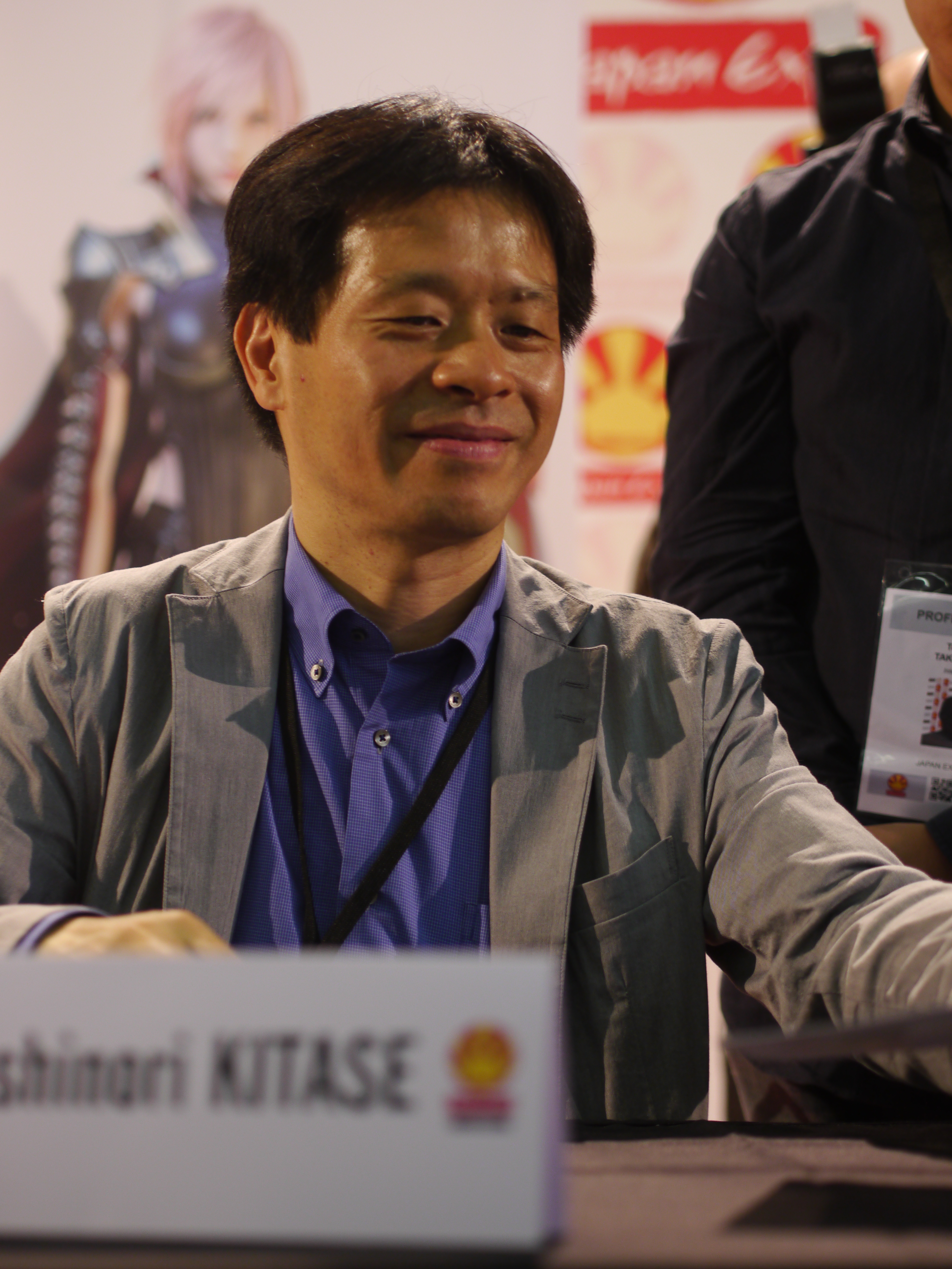 Japan Expo Festival, 14th impact